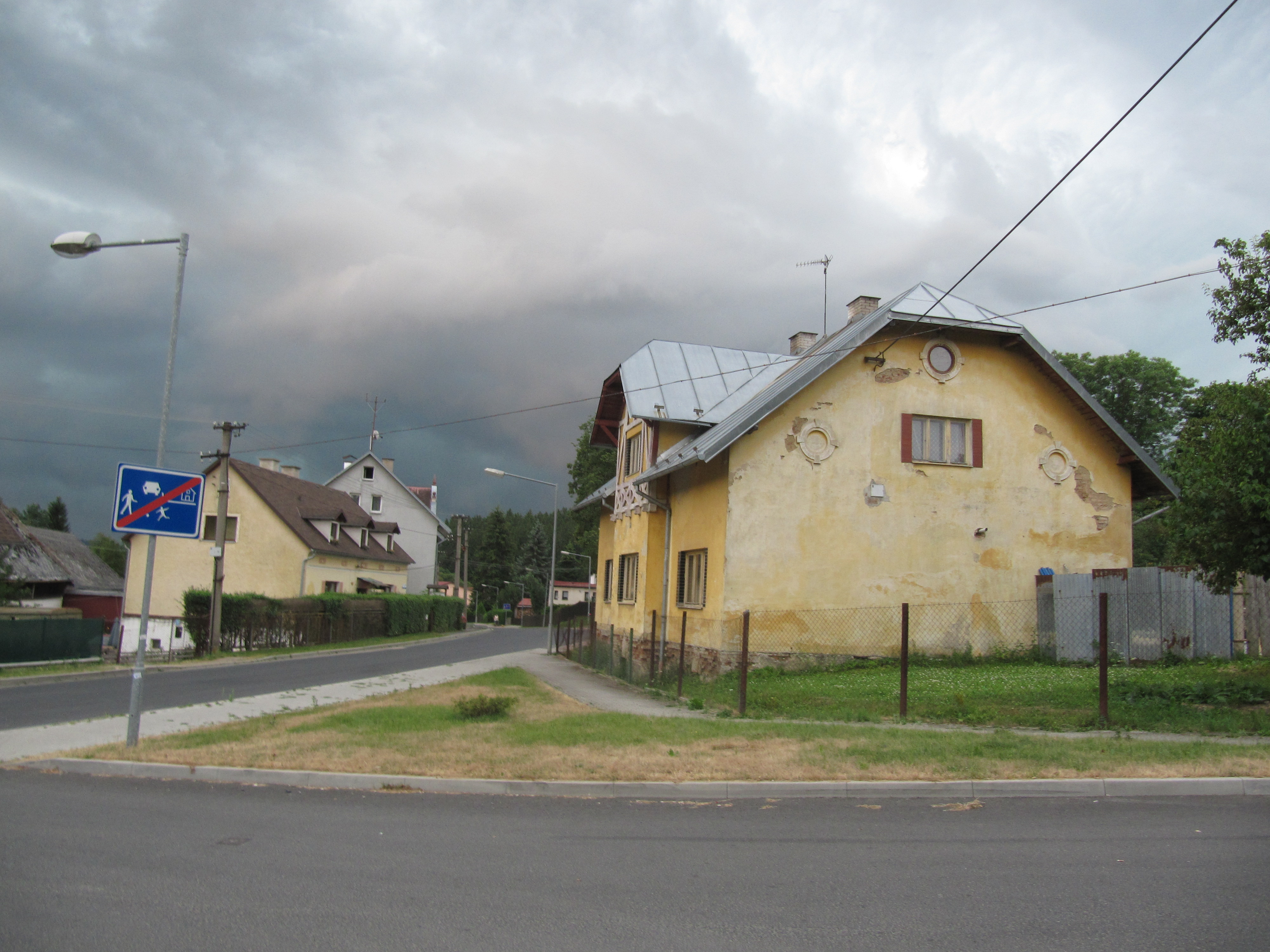 Valy, Cheb District, Czech Republic. The main street towards Mariánské Lázně.